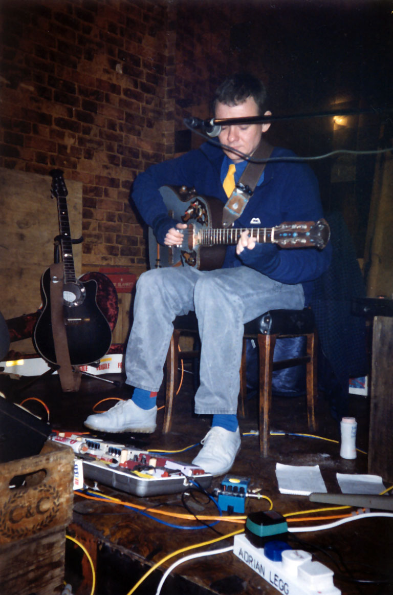 Acoustic guitarist Adrian Legg, taken at the Hare and Hounds pub in north London